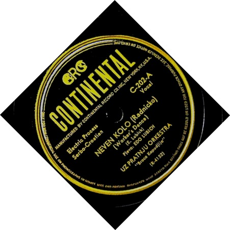 old vinyl with Marko Nešić composition "Neven Kolo" recorded about 1938. by singer Edo Ljubić